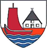 Coat of arms of the municipality Huje in Schleswig-Holstein, Germany.